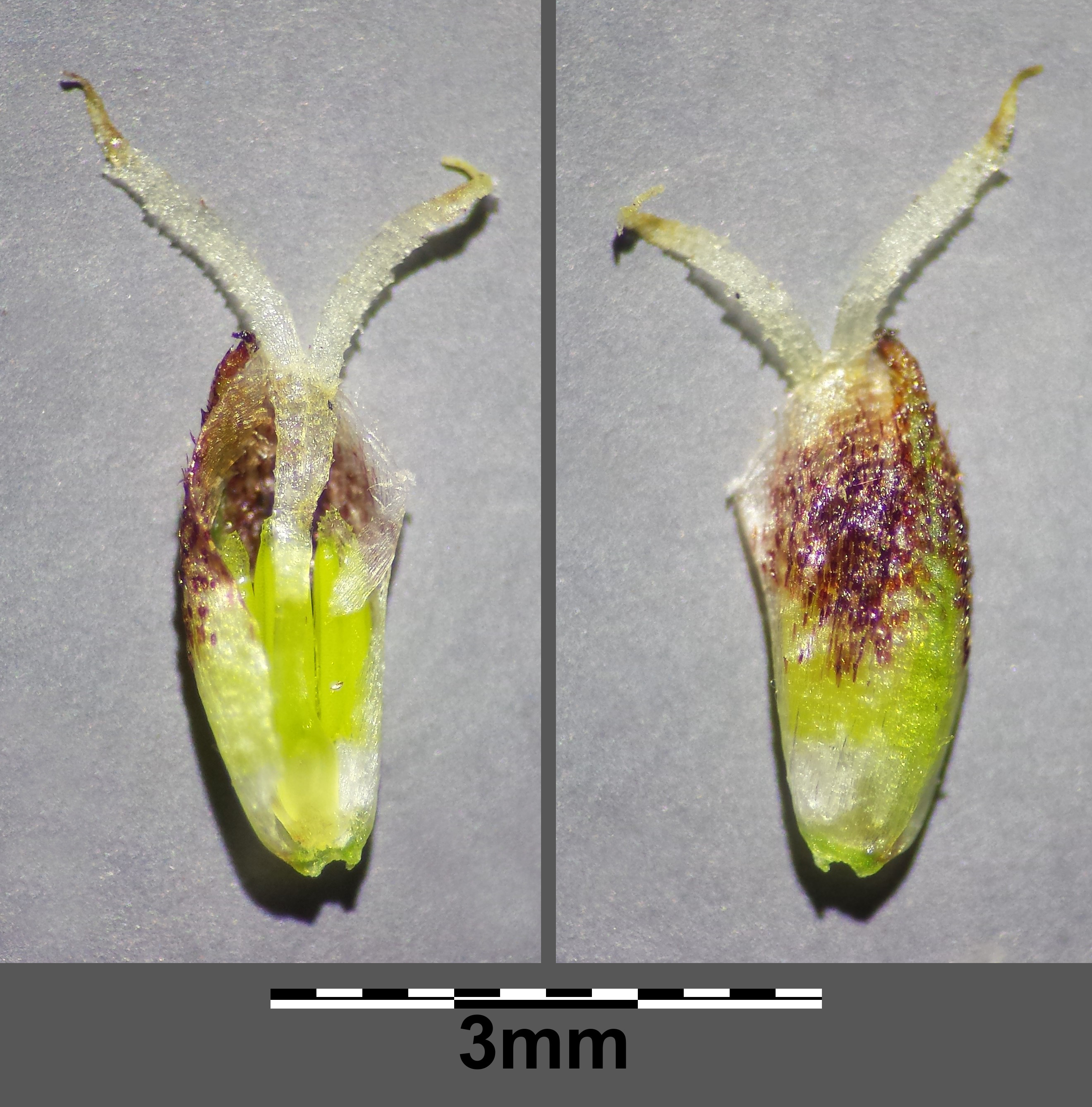 Flower with bract Taxonym: Schoenoplectus tabernaemontani ss Fischer et al. EfÖLS 2008 ISBN 978-3-85474-187-9 Location: Laimergrube in Stammersdorf, Vienna-Floridsdorf - ca. 160 m a.s.l. Habitat: muddy ground